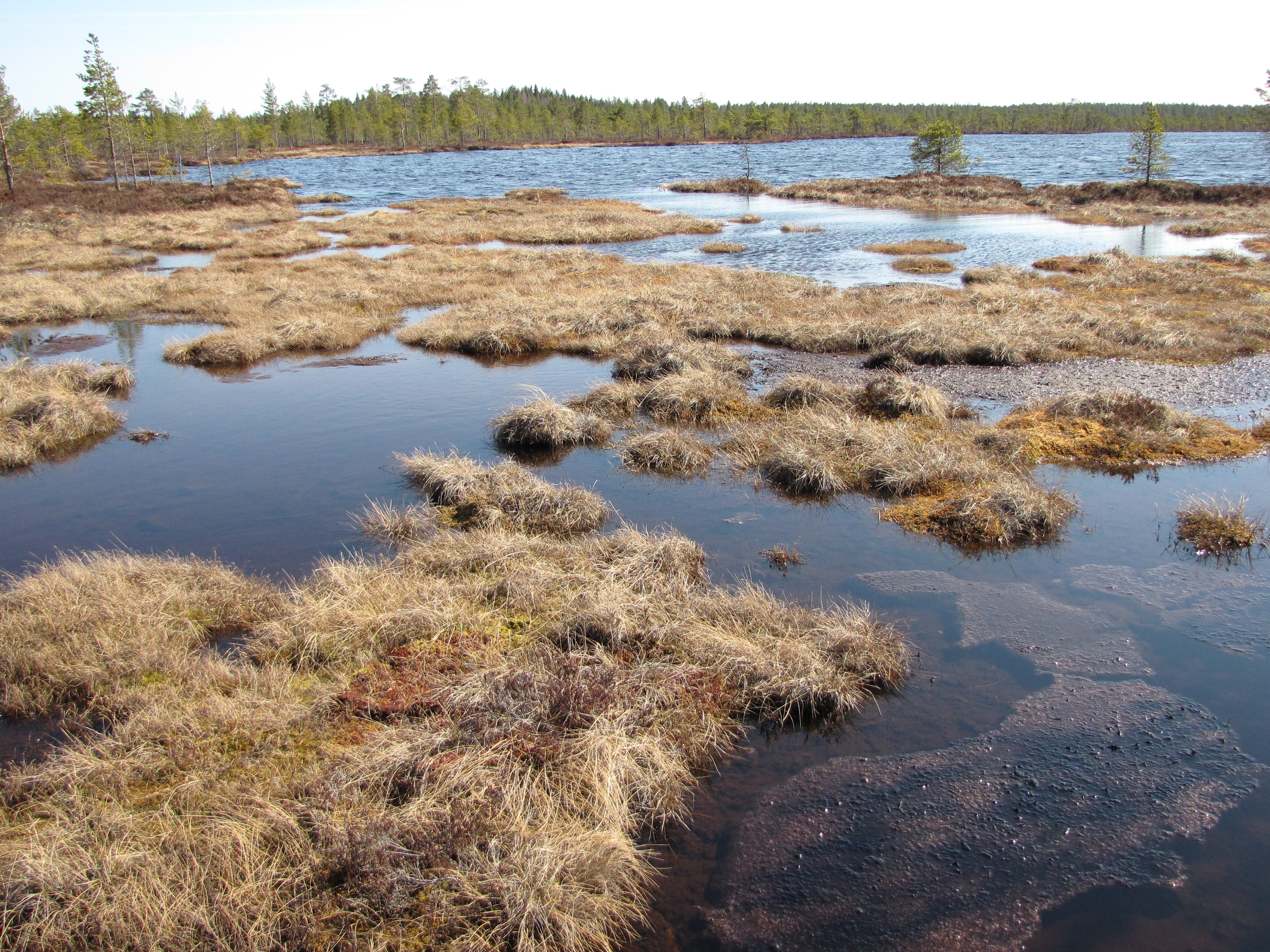 Part of the Kauhaneva mire, one of the biggest mires in the southern half of Finland and a very significant nesting site for many bird species, is protected in the Kauhaneva–Pohjankangas National Park in the municipality of Kauhajoki, Southern Ostrobotnia, Finland. There are Lake Kauhalammi in the background.